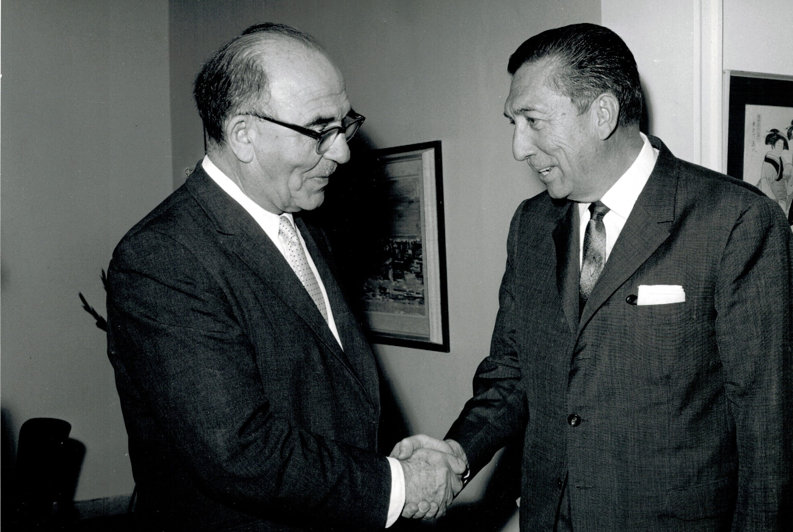 Prime Minister of Israel Levi Eshkol and former President of Mexico Miguel Alemán Valdés on his visit to Israel, November 18, '63.